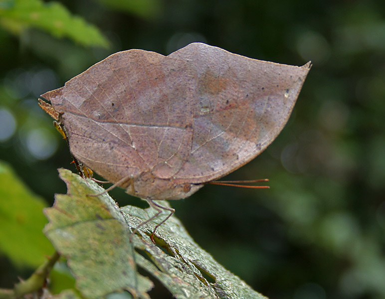 Orange Oakleaf Kallima inachus at Samsing in Darjeeling district of West Bengal, India.